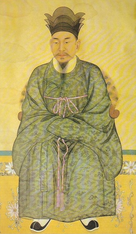 Choe Je-u